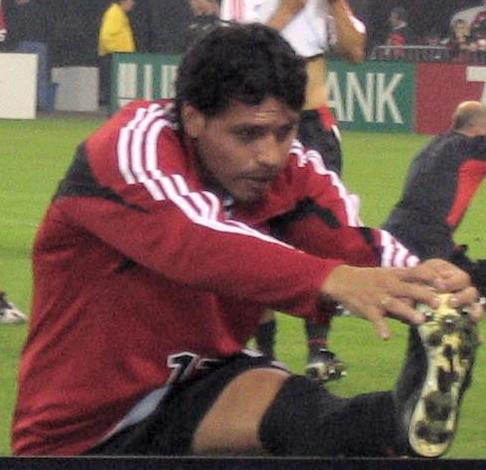 Photo of Christian Gómez taken by me before a D.C. United game at Robert F. Kennedy Memorial Stadium.